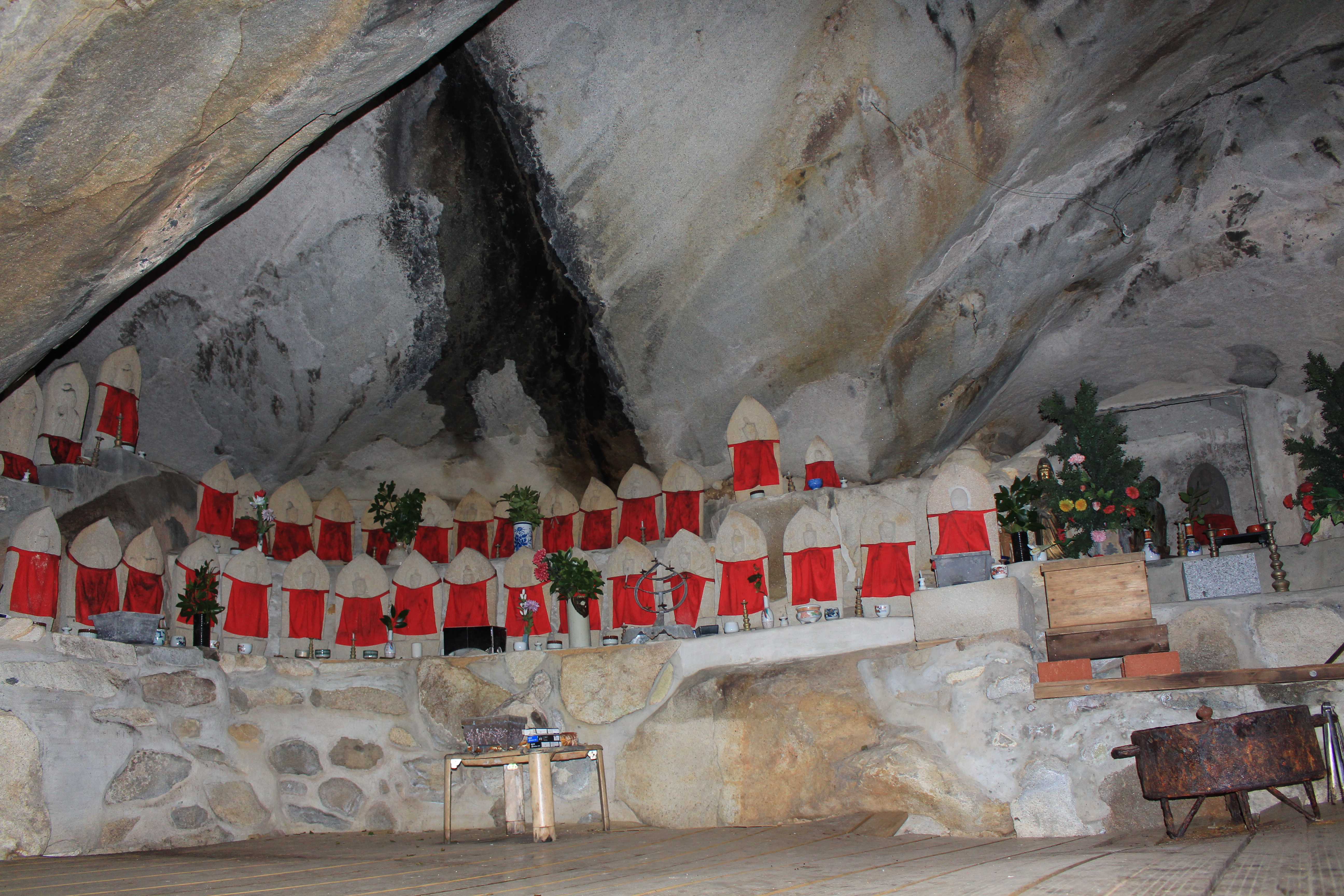 Iwayadō, in Owase, Mie prefecture, Japan.